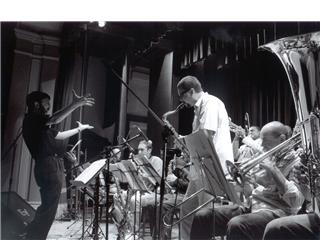 Lydian orchestra